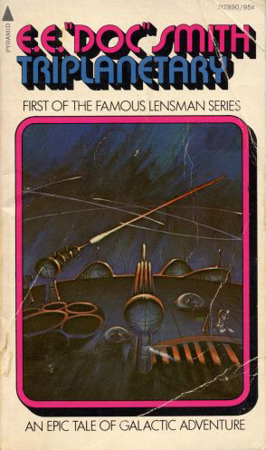 Cover of "Triplanetary" by E.E. Doc Smith, 1948